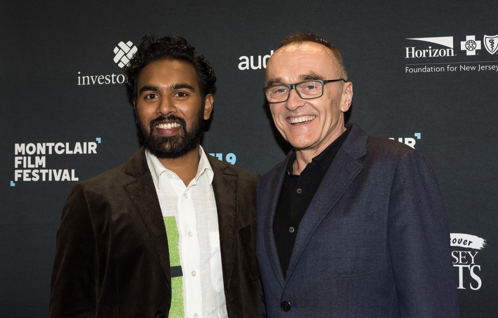 Photography by Cheryl Corman